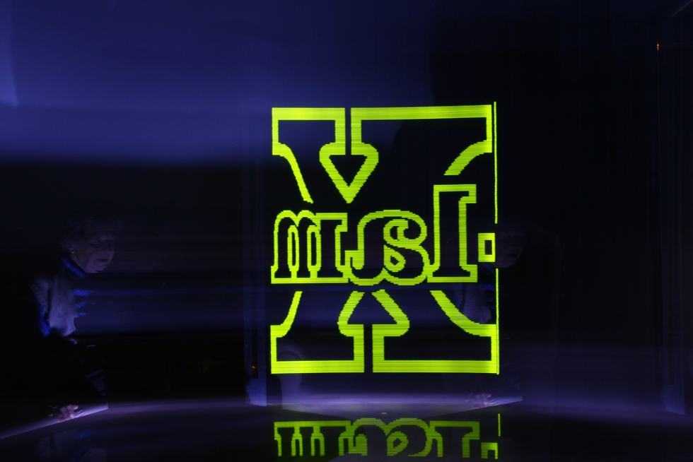 Based on Tadej Komavec technology X-alm